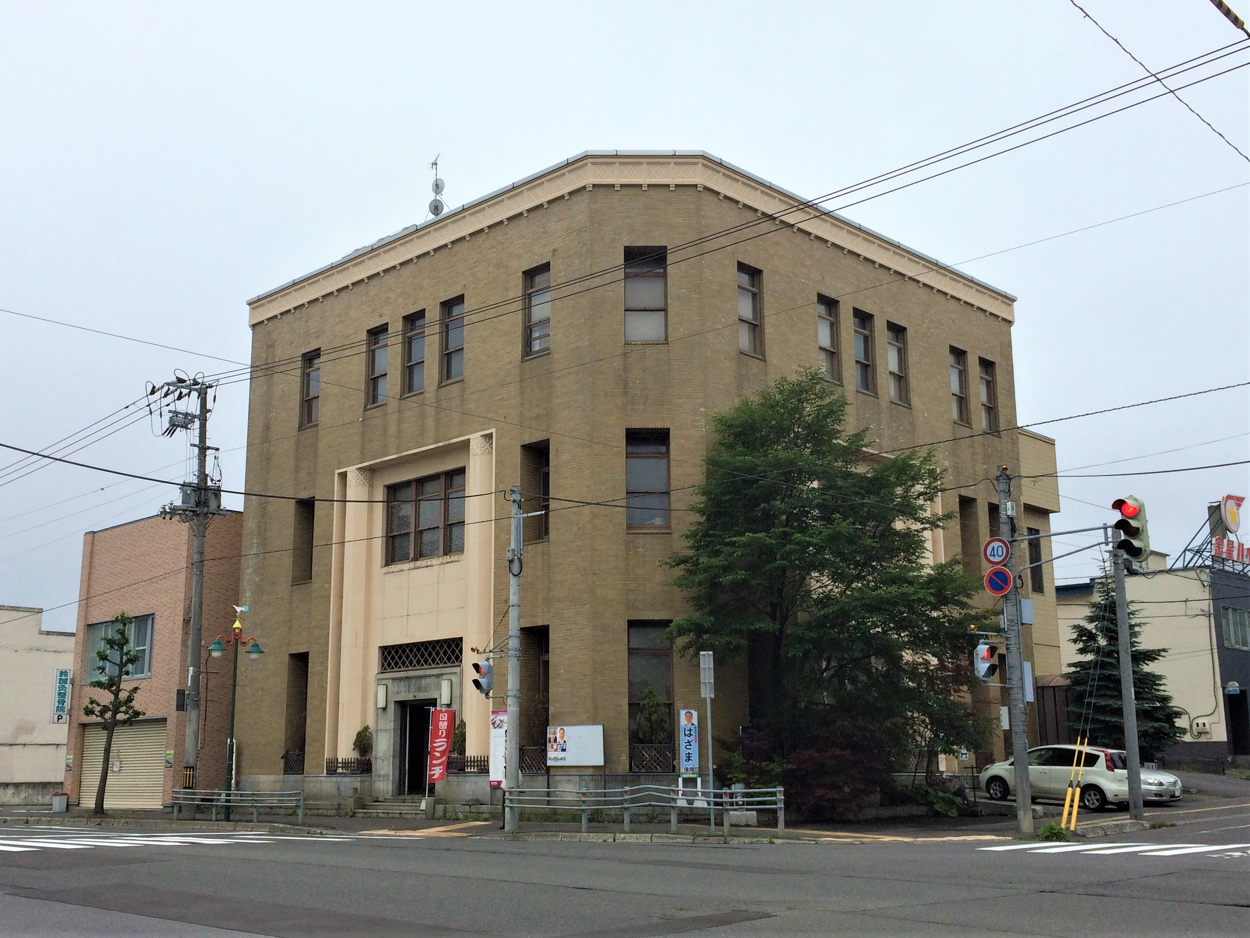 Former Headquarters of Otaru Mujin Co., Ltd. in Otaru, Hokkaido prefecture, Japan